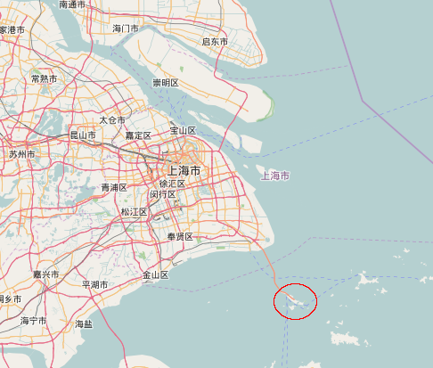 Location of the Yangshan Port/Yangshan Deep-Water Port.